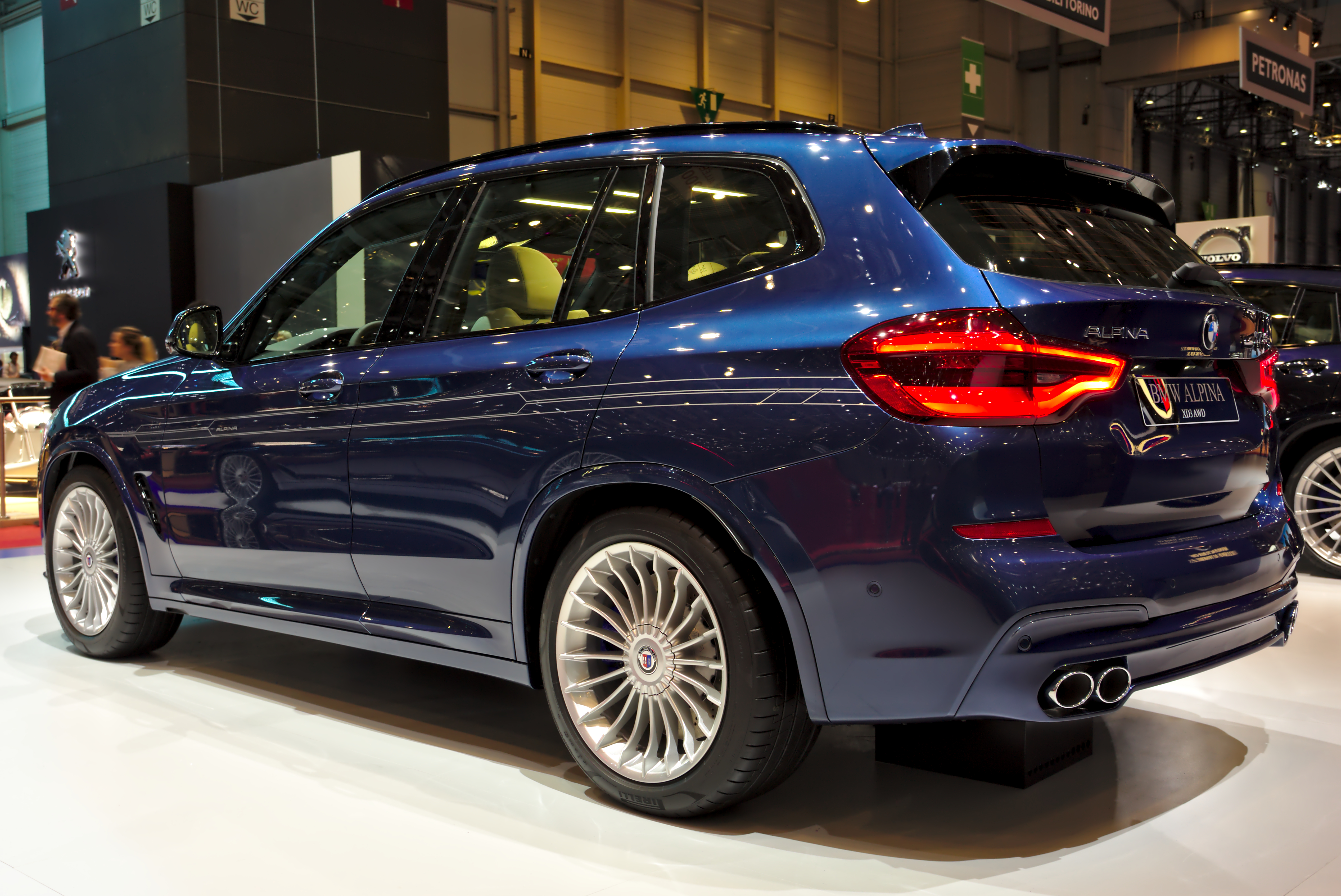 Alpina XD3 at Geneva Motorshow 2018